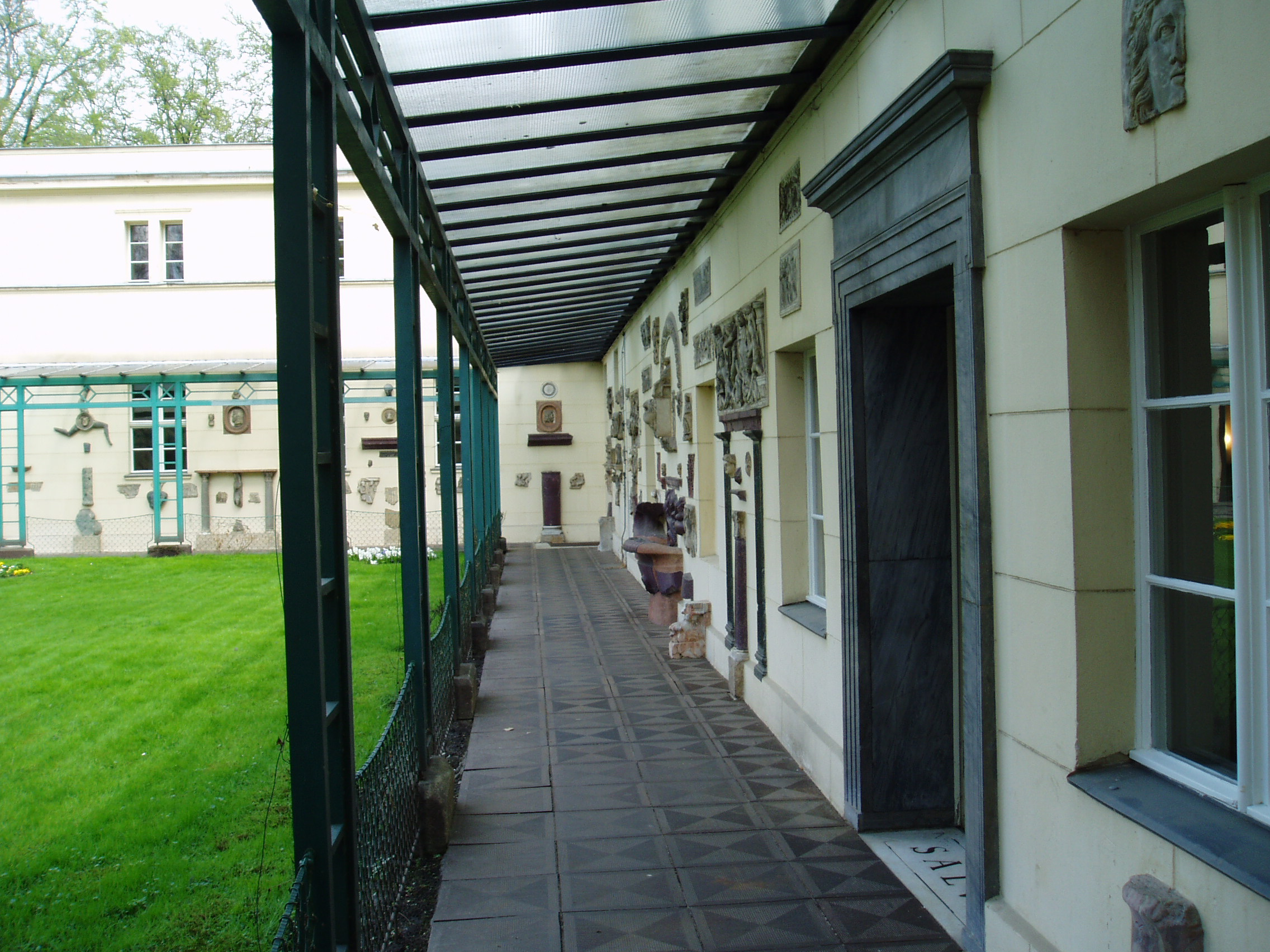 Entrance door in the inner courtyard, pergola and antique fragments. Glienicke castle, Berlin, Germany